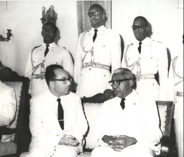 Haitian president François Duvalier (Papa Doc) meets the Israeli non-resident ambassador, Dr. Yoel Bar-Romi, at Duvalier's coronation as president for life.